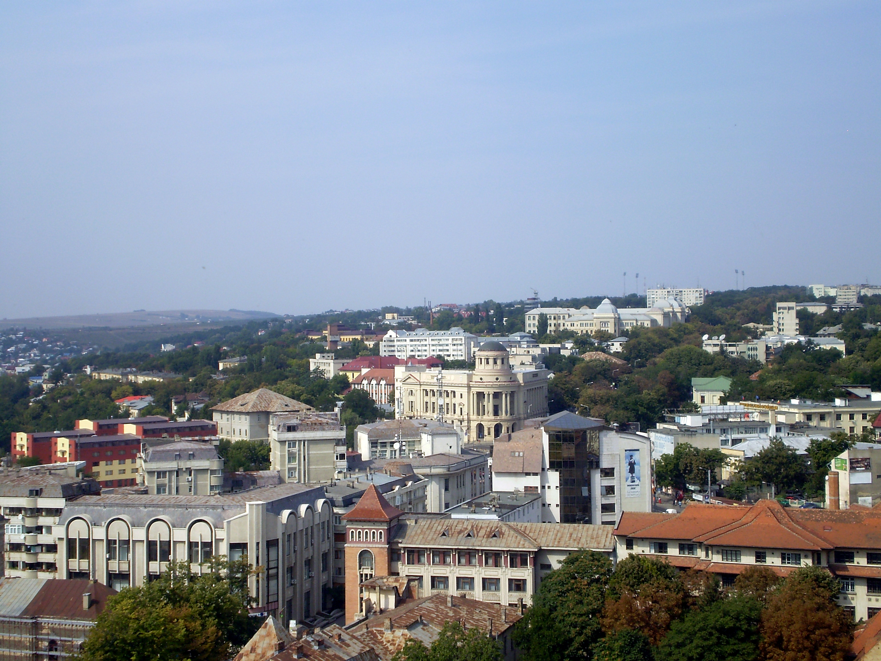 Iaşi , panoramic view to distrikt Copou , Iaşi , Romania